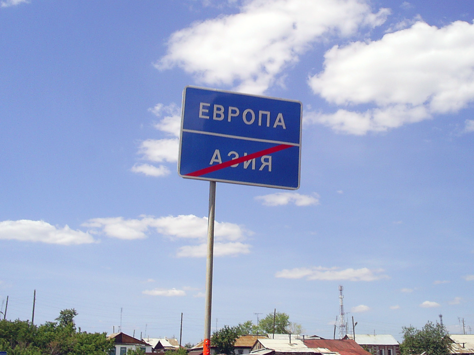 On the bridge over Ural, Kizilskoe